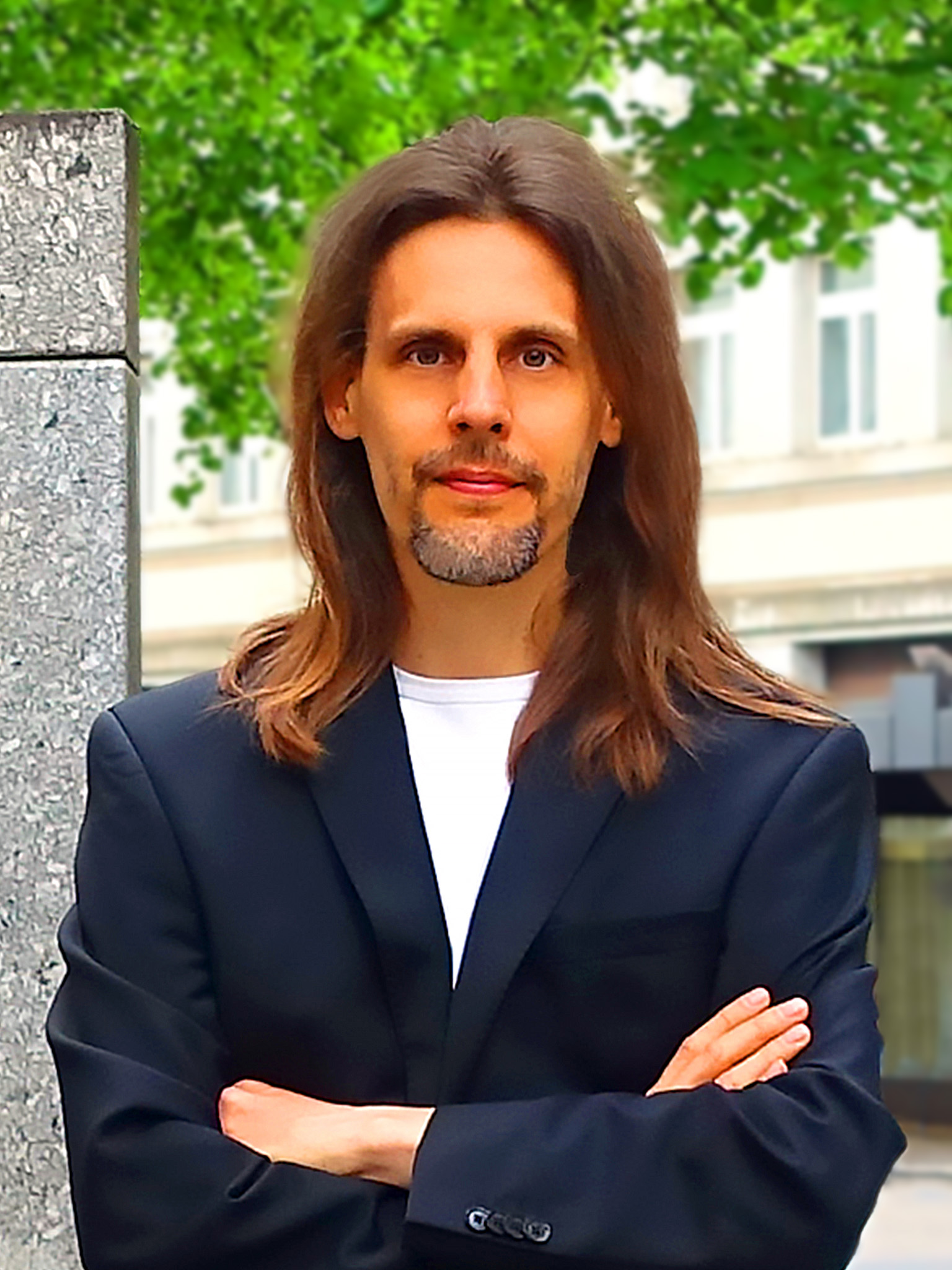 Daniel Quaiser in front of the Pavillon-Skulptur of Max Bill at the corner of Bahnhofstrasse/Pelikanstrasse in Zurich, April 27, 2018